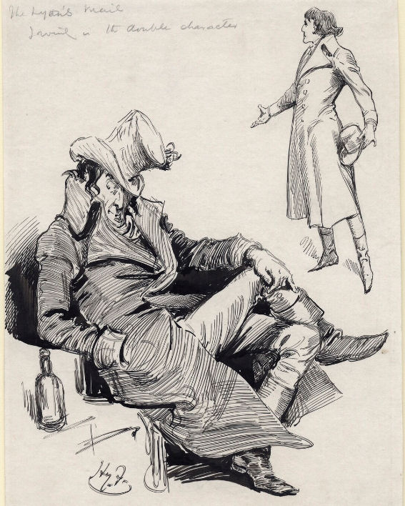 Henry Irving in The Lyons Mail at the Lyceum Theatre (1877) - by Harry Furniss (1854-1925)